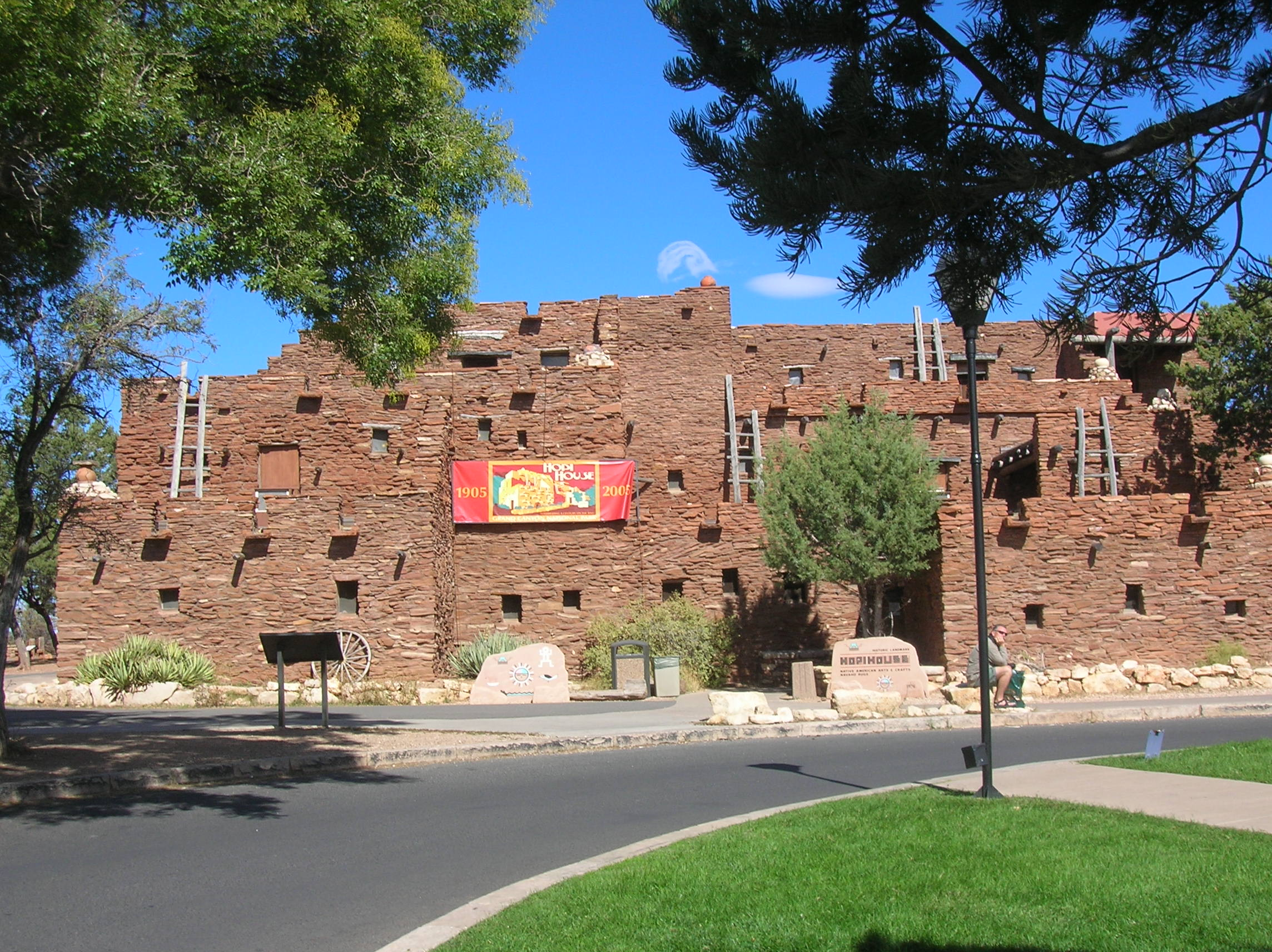 Hopi House near Grand Canyon, Arizona